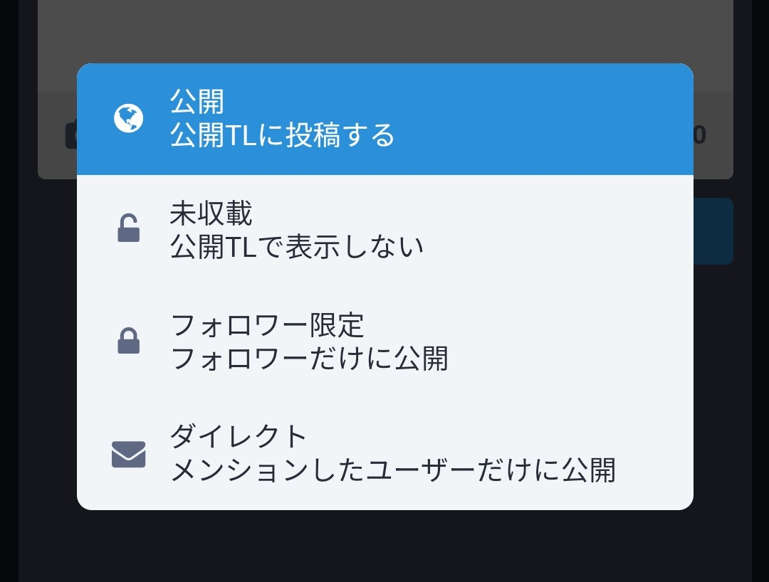 mastodon